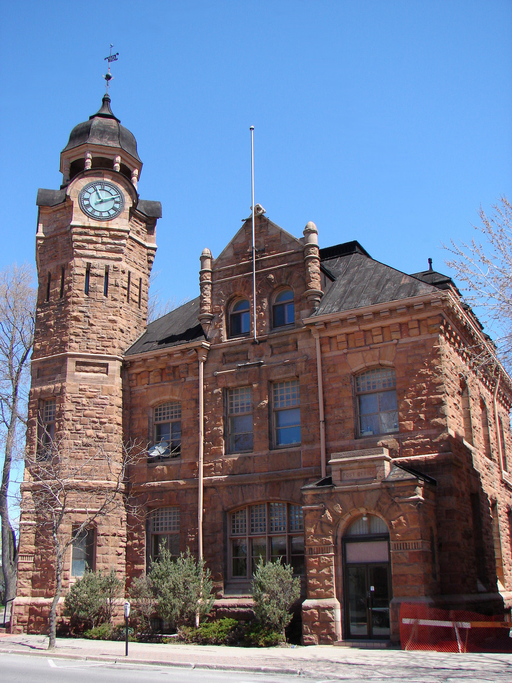 Old Post Office, Napanee, Ontario, Canada. Located at the intersection of John and Bridge Streets, the post office building is an important local landmark in downtown Napanee. It is the only sandstone building in an area marked by wide use of brick and limestone construction and the tall clock tower makes it a prominent feature of the town's skyline. Paired with the Town Hall (1852) and the other heritage buildings of the market square area, the Napanee Post Office significantly contributes to Napanee's historic town centre. The Napanee Post Office is a notable work of Thomas Fuller, Canada's Chief Dominion Architect from 1881 to 1896 and a member of the firm that designed the Centre Block of Canada's Parliament Buildings.